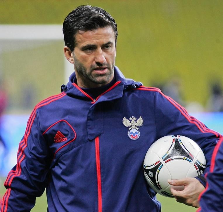 Christian Panucci working as an assistant coach for the Russia national football team before the 2014 FIFA World Cup qualifier against Azerbaijan in Moscow in 2012.